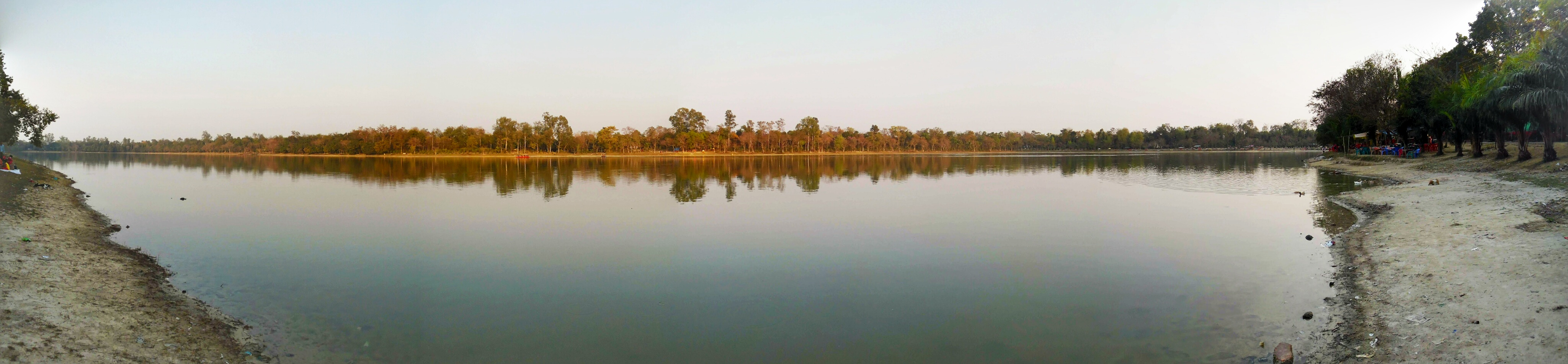 Panorama of Ramsagar, Dinajpur, Bangladesh. (02.03.2019)